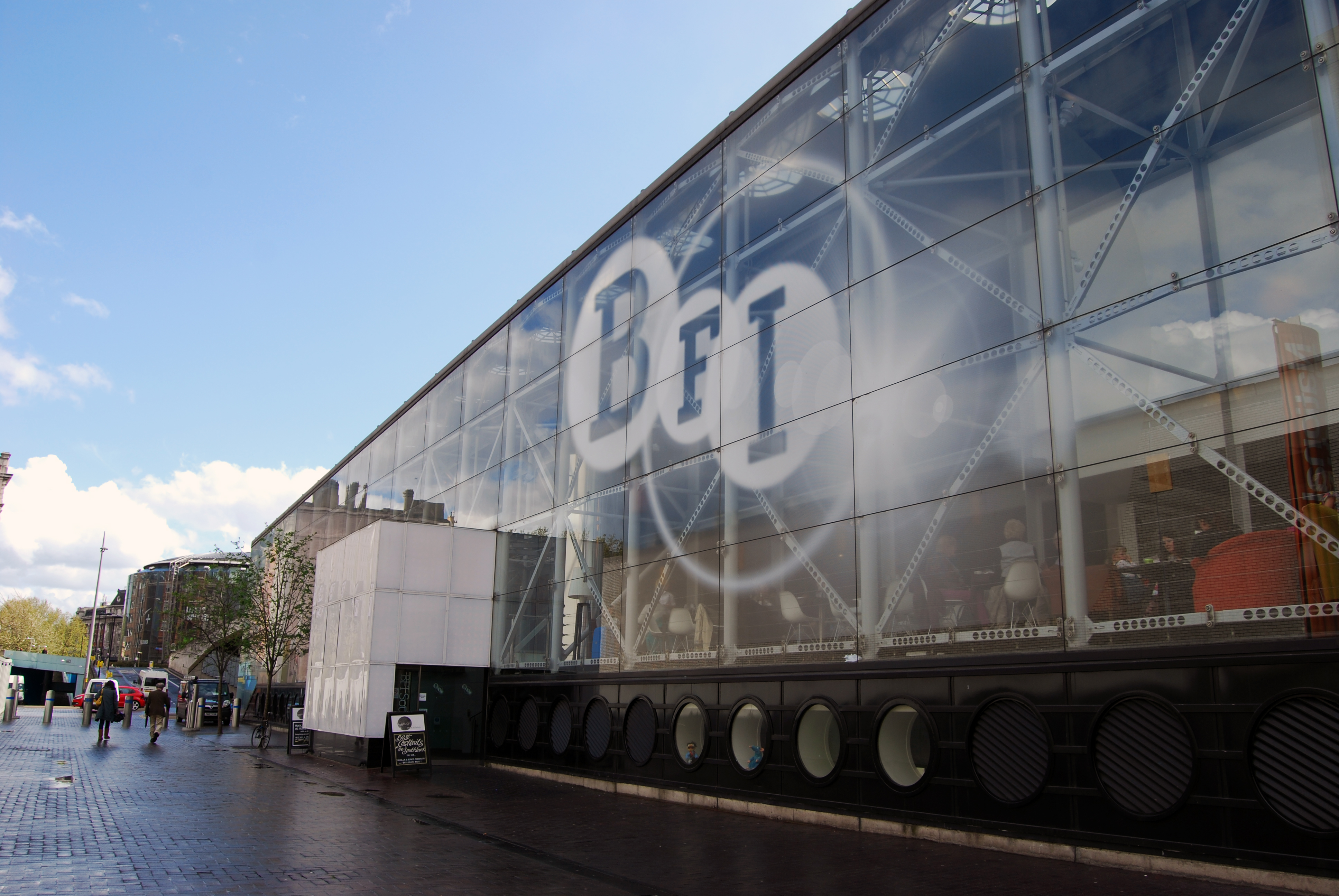 BFI Southbank